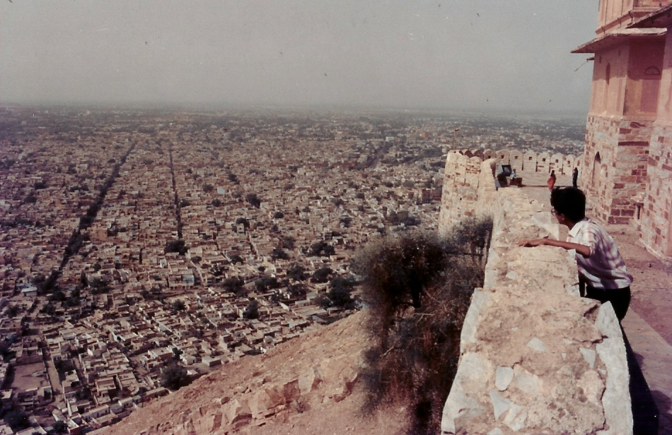 Own pic